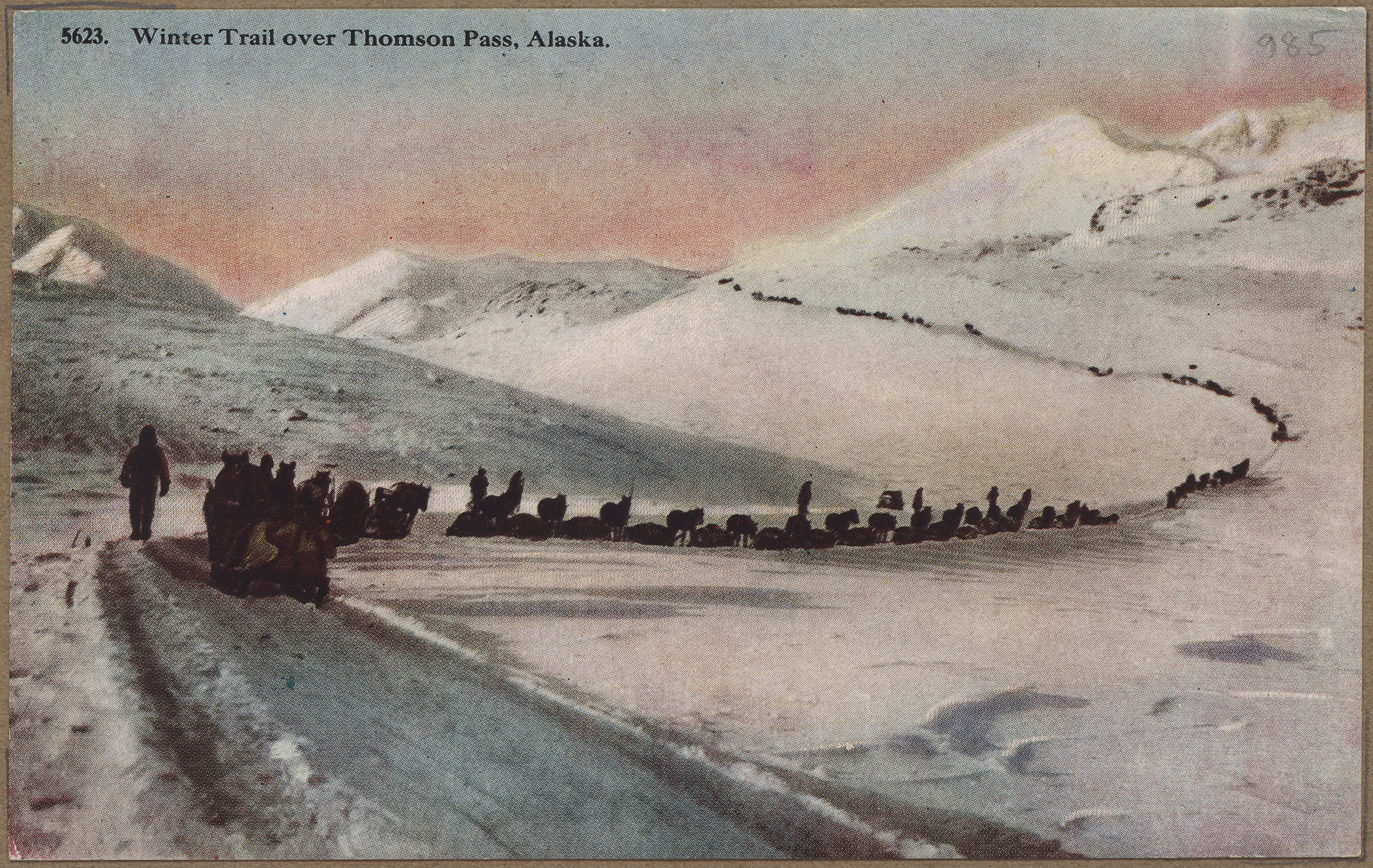 Notwithstanding the title these are mostly horse-drawn sleighs. This route eventually became the Richardson Highway.